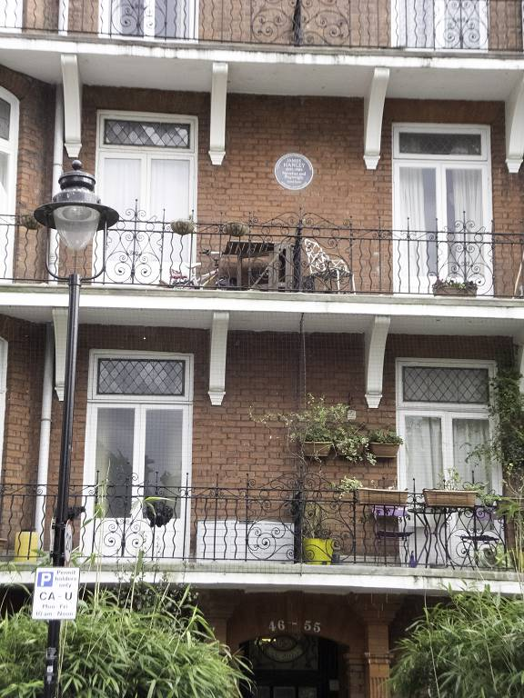 James Hanley plaque, 46–55 Lissenden Gardens, London NW5